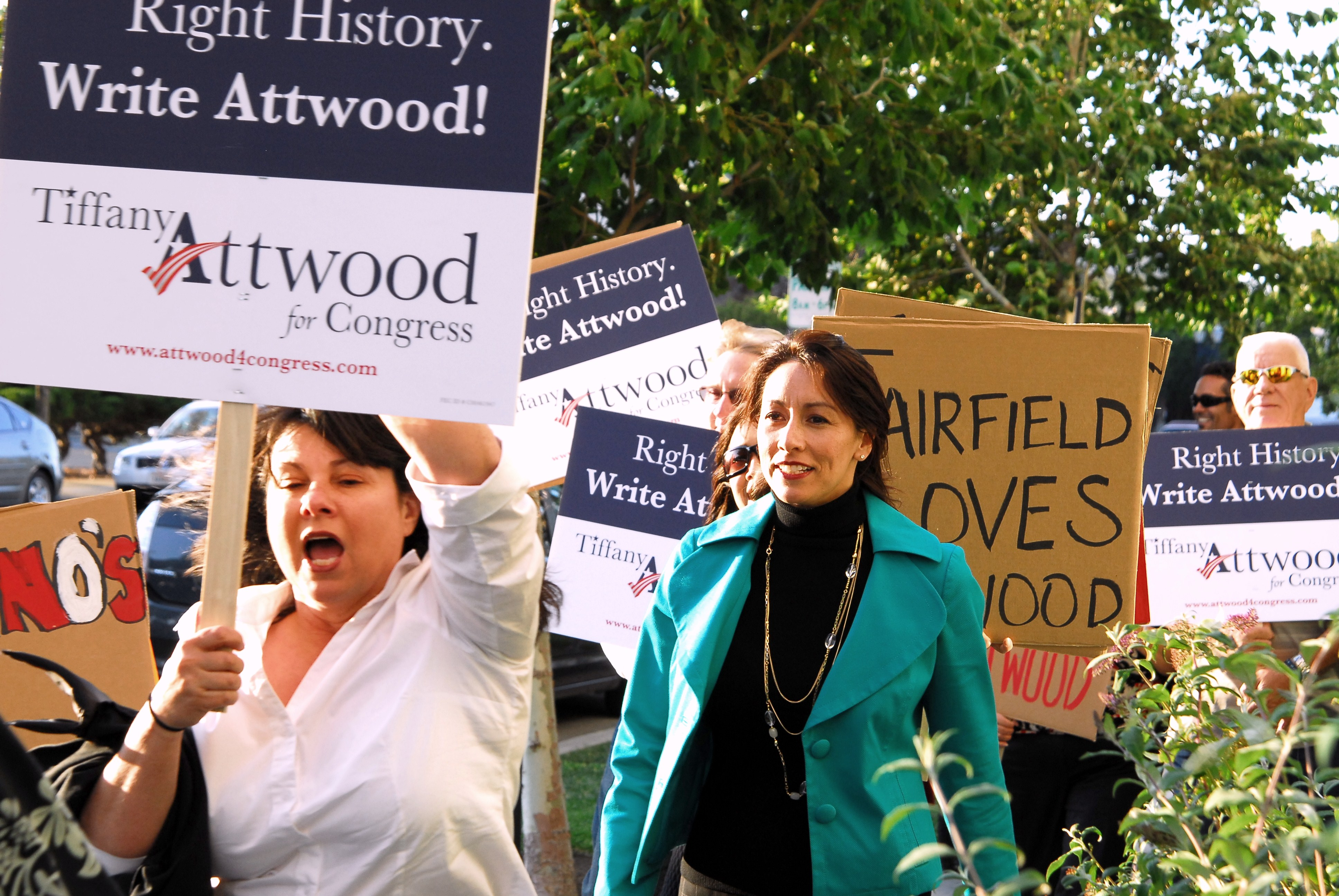 August 7, 2009 Political Protest at the Solano County Building.